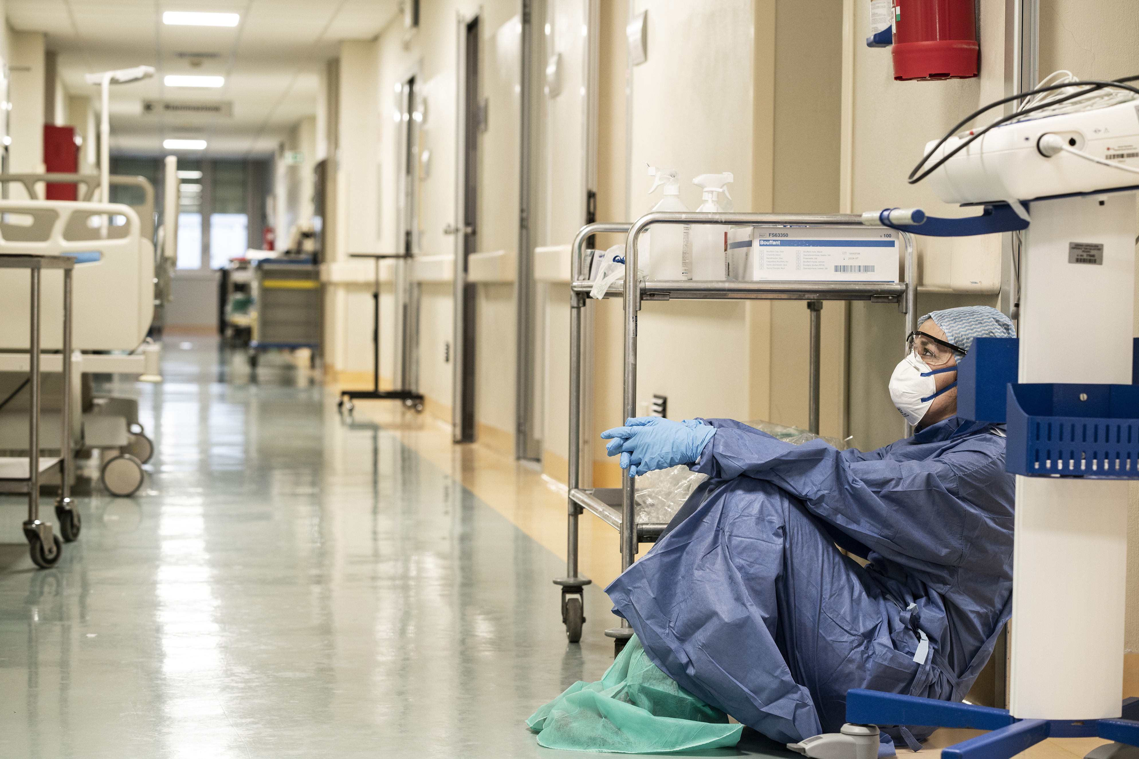 These are the doctors and nurses of the San Salvatore Hospital in Pesaro, Italy, the city of my birth and where I once again reside, which from day one has sadly been at the top of the COVID-19 contagion and death charts. I photographed them at the end of their shifts—twelve hours without a break during their fight in an unequal war. In the quiet moments in front of my camera, these embattled individuals are in a state of total abandon, victims of an exhaustion that eats away at the body and the mind, a breathlessness that renders one disoriented, detached from time and space. They would take off their masks, caps, and gloves in front of my lens, remaining motionless, looking for some sort of normalcy amid the hell they were living.